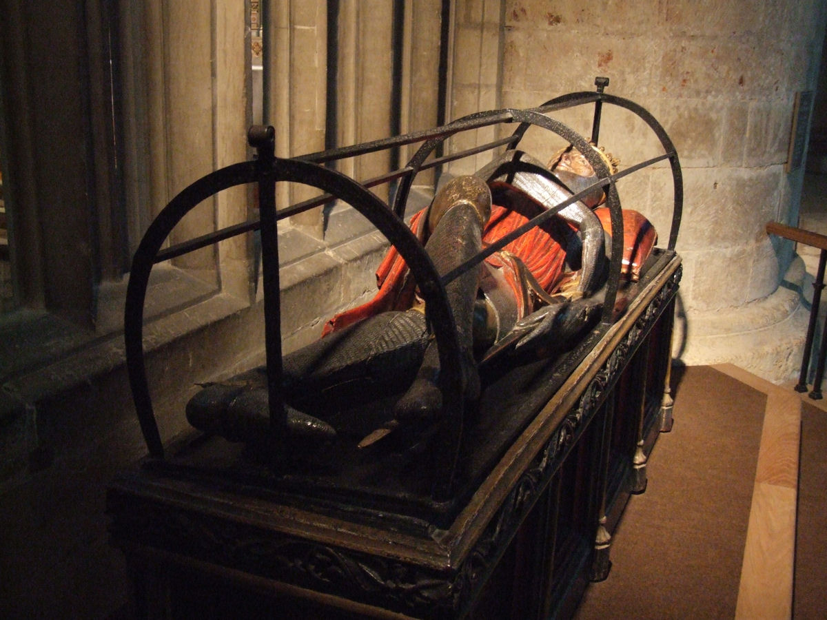 Gloucester cathedral, Gloucester, England - Tomb of Robert Curthose, Duke of Normandy -- William I's son made of bog oak